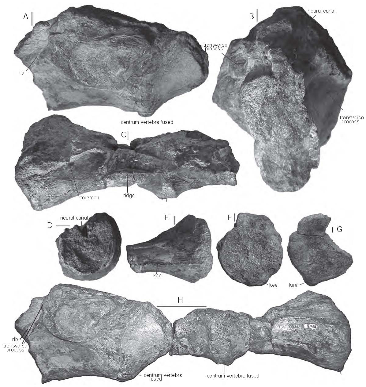 Ceratosaurian theropod Camarillasaurus cirugedae gen. et sp. nov. from the Camarillas Formation of Camarillas, Soria Province, Spain, sacrum. A-B, MPG-KPC4, formed from two broken centra fused, in left lateral (A), and anterior (B) views; C-D, MPG1132 KPC3, formed from two broken centra fused, in right lateral (C) and anterior (D) views; E-F, incomplete centrum, MPG-KPC16, in lateral (E) and anterior? (F) views; G, incomplete centrum, MPG-KPC18, in articular surface ventral view; H, lateral view of MPG-KPC4 and MPG-KPC3. Scale bars are 10 mm (A-G) and 40 mm (H).